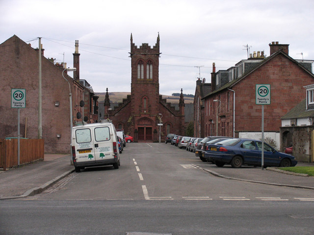 Renton Trinity Church Renton Trinity Church was opened in 1892